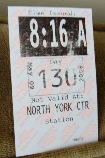 A Toronto Transit Commission transfer, entitling the holder to switch from one mode of transit to another without having to pay an additional fare. The transfer pictured was taken at the North York Centre subway station.